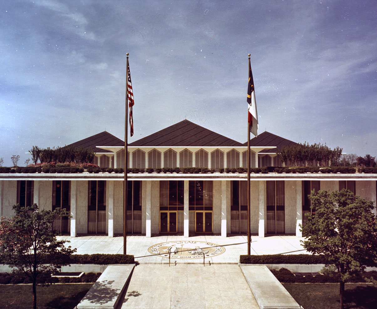 Exterior, New Legislative Building, Raleigh, NC, 1973. Photo by Clay Nolan. From Color Transparency series, General Negatives Collection, State Archives of North Carolina.